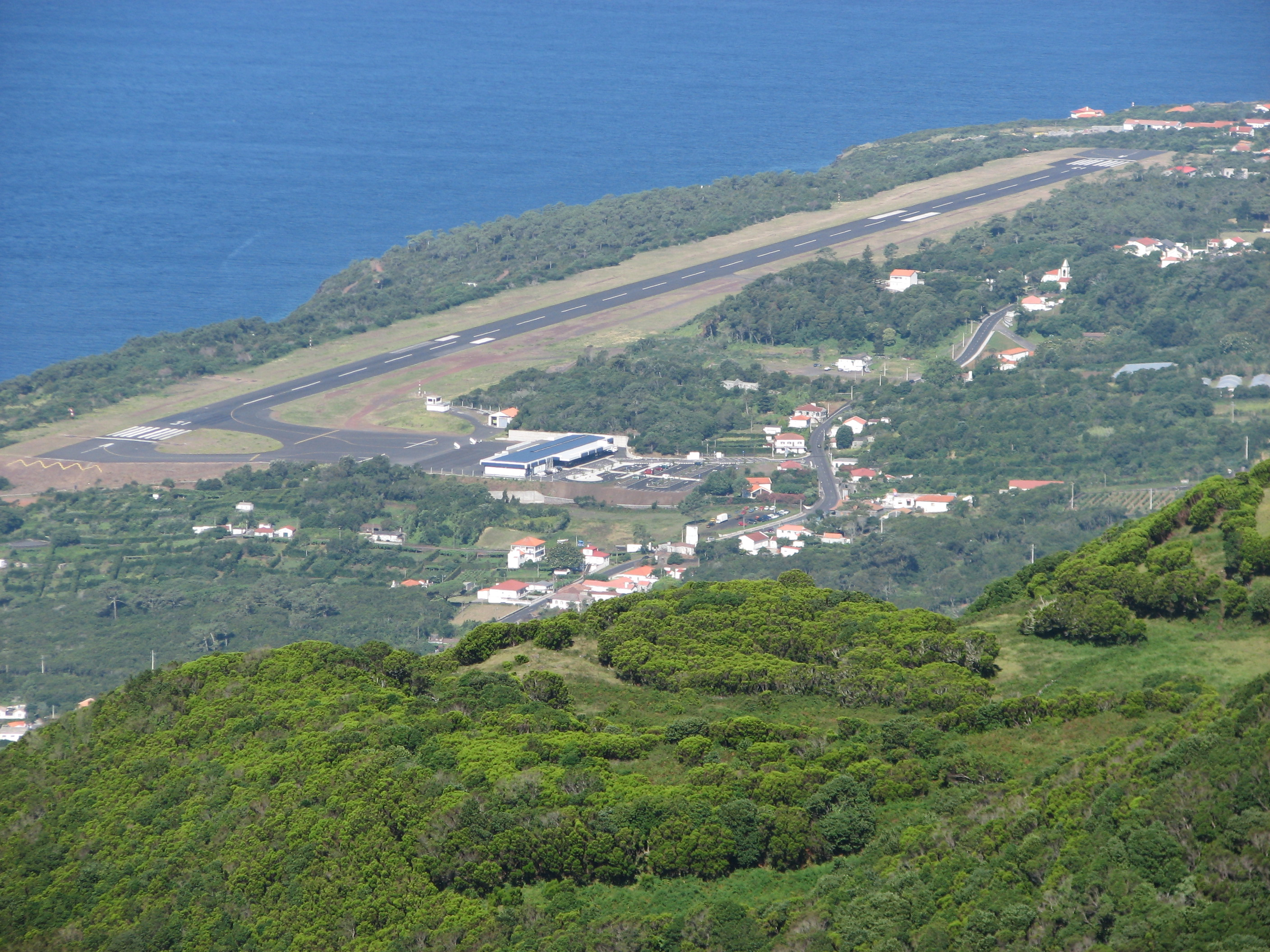 The airport of the island São Jorge, Azores, seen from the mountainside to the northeast of the runway.